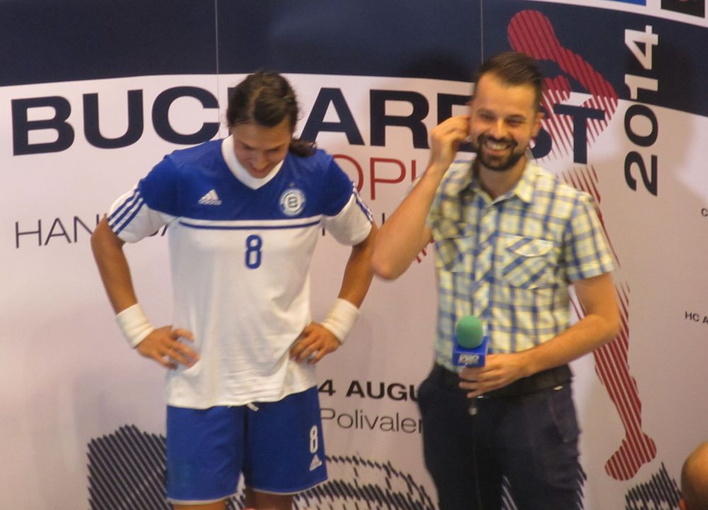 Cristina Neagu during an interview at Bucharest Trophy 2014.